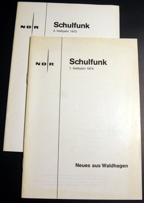 Accompanying teacher's material for educational public broadcasting in Germany